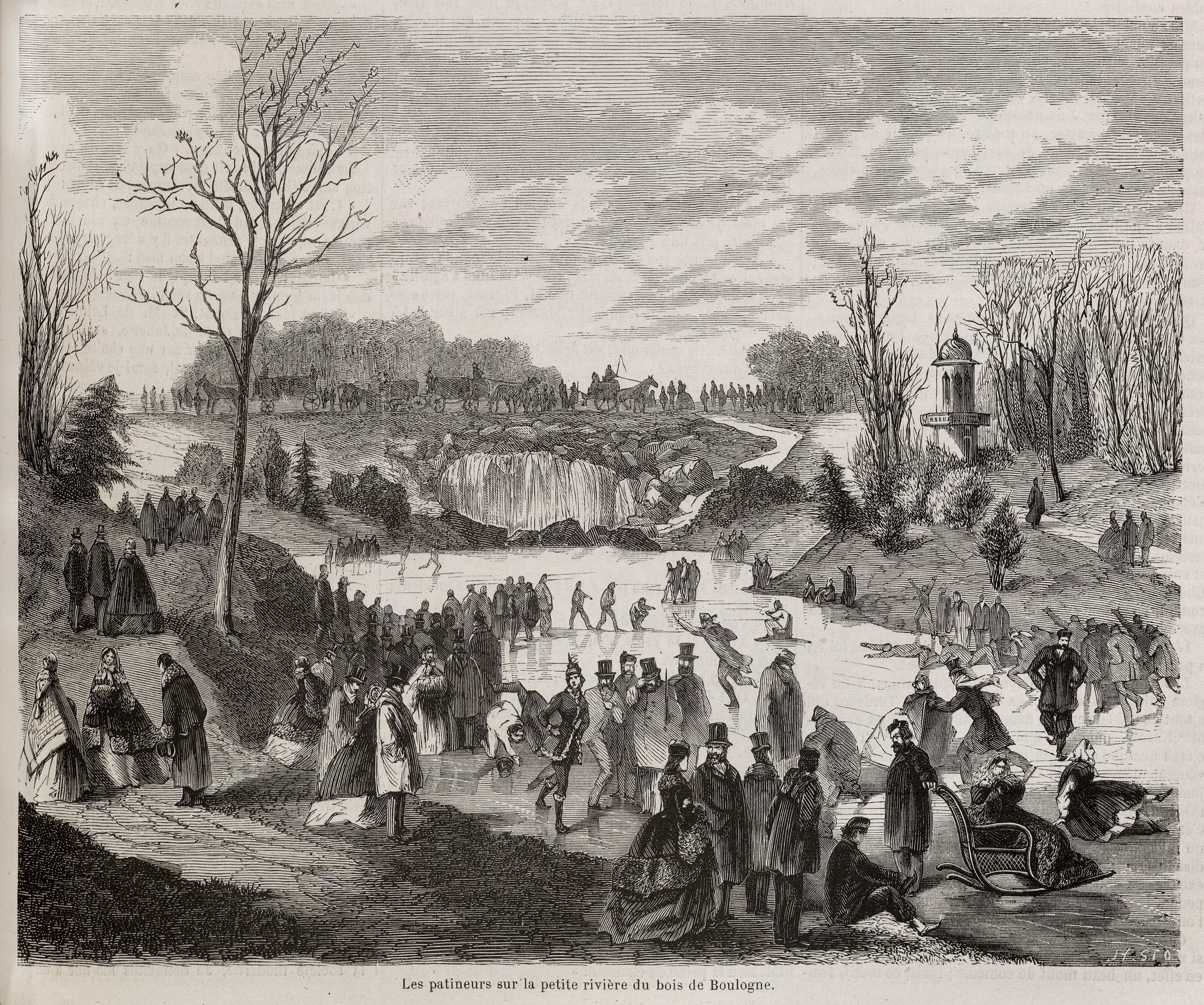 The Bois de Boulogne offered popular ice-skating sites to Parisians.